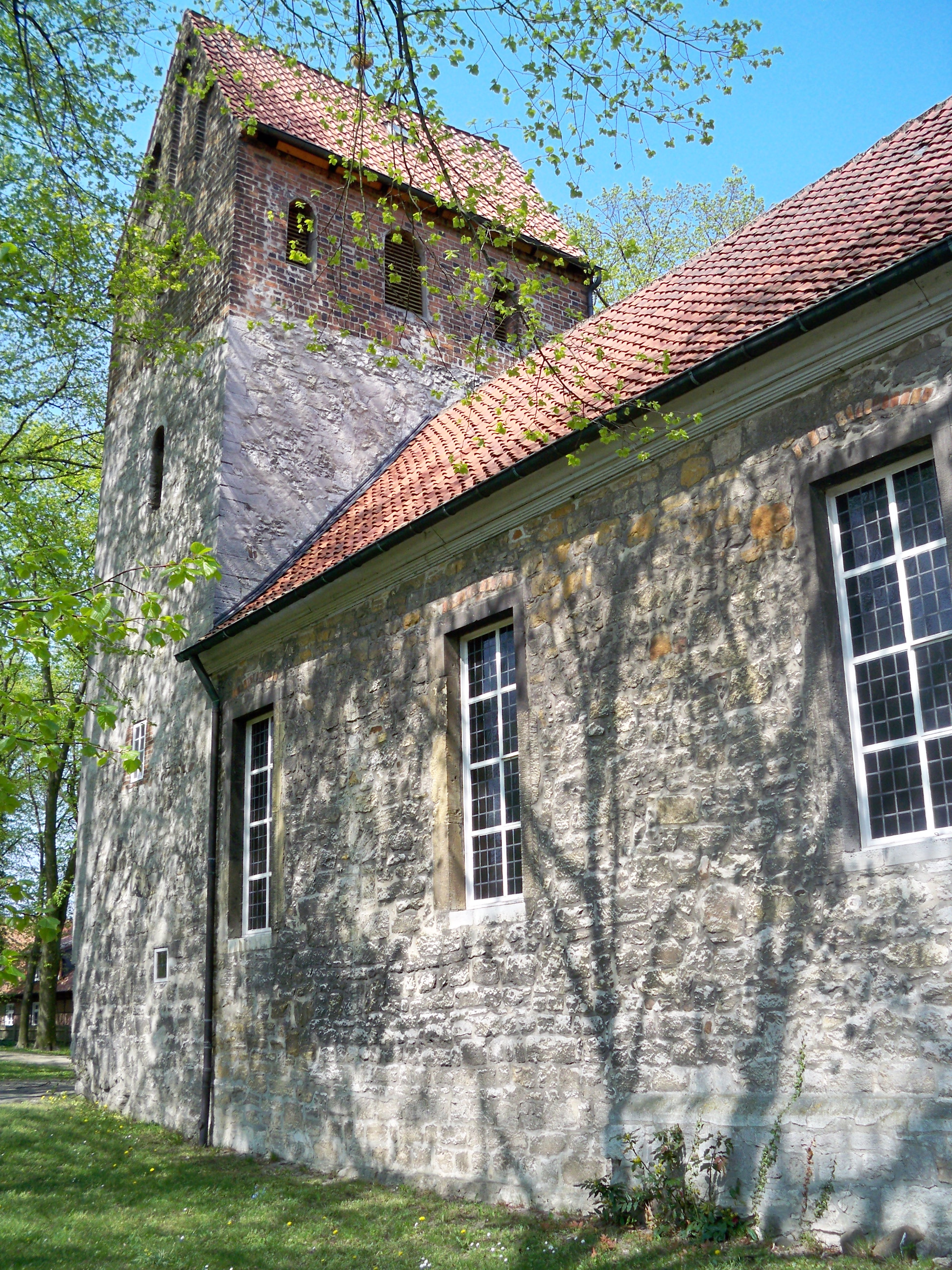 Church in Essenrode, Germany